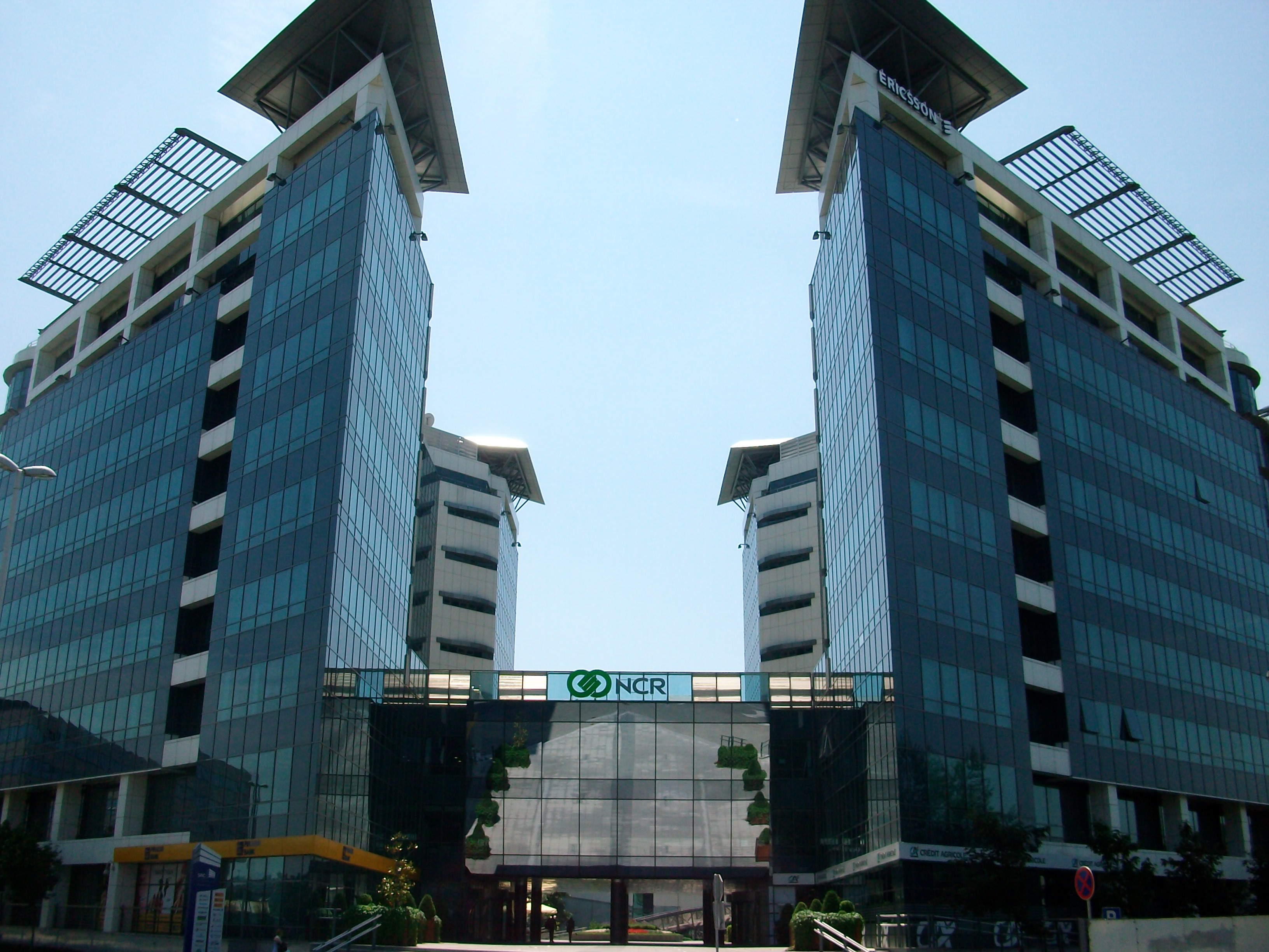 Savograd, commercial district in New Belgrade